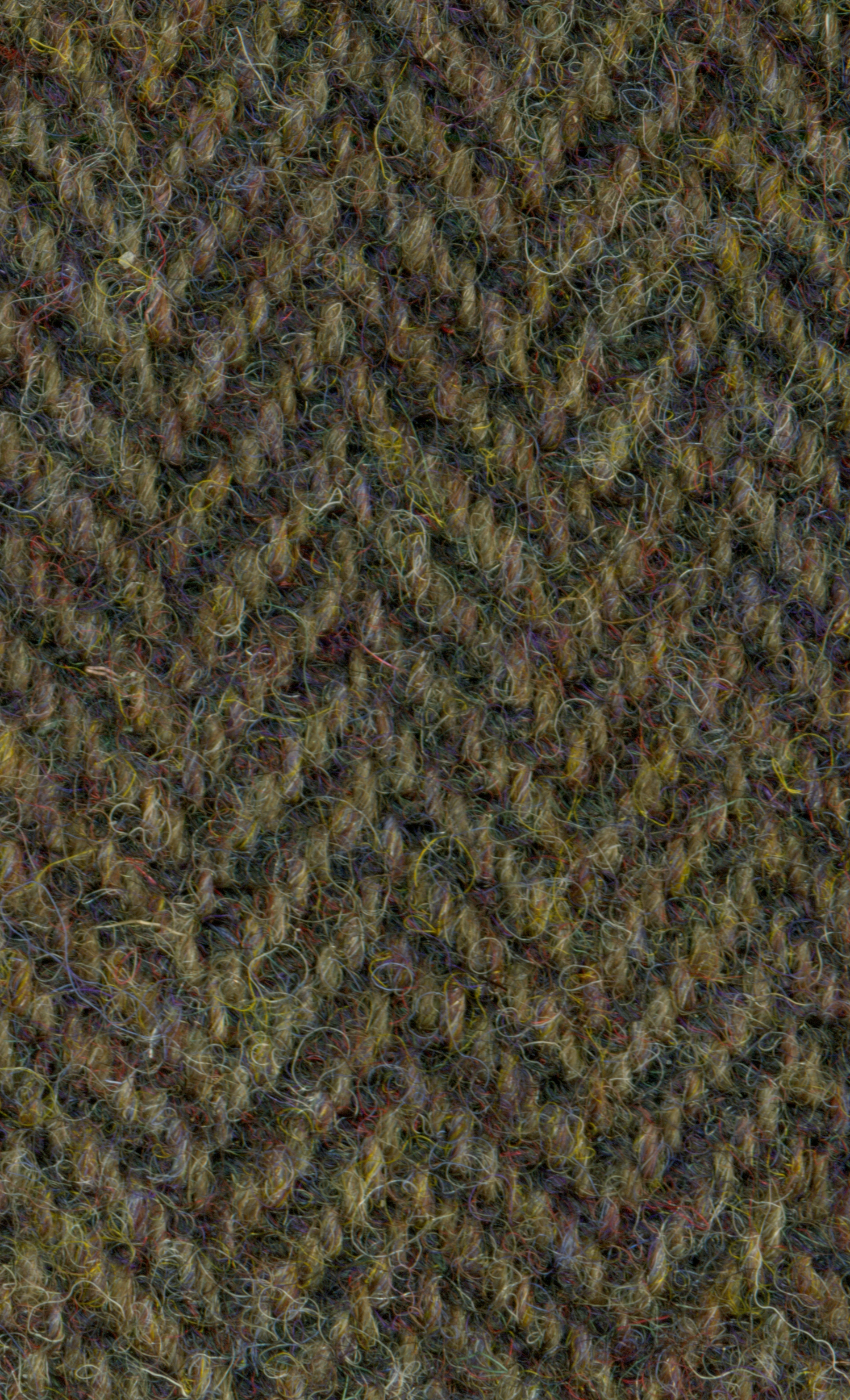 2D-scan of a cloth sample of Harris Tweed (herringbone). Handwoven woolen cloth from the Outer Hebrides.